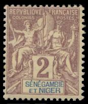 Stamp of Senegambia and Niger, Scott #2.